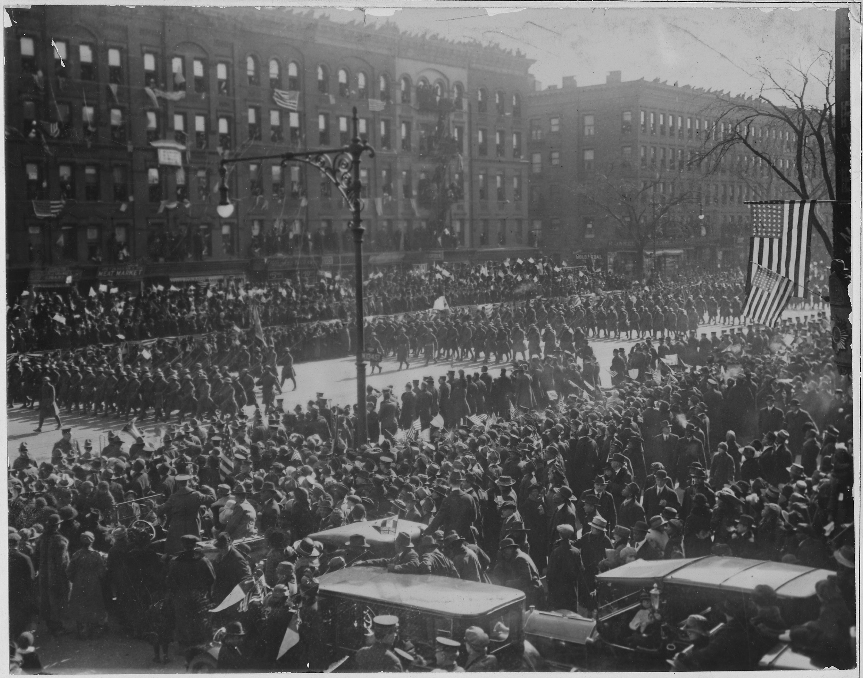 Scope and content: The full caption for this item is as follows: Famous New York soldiers return home. [The] 369th Infantry (old 15th National Guard of New York City) was the first New York regiment to parade as veterans of Great War. General view of parade and reviewing stand.